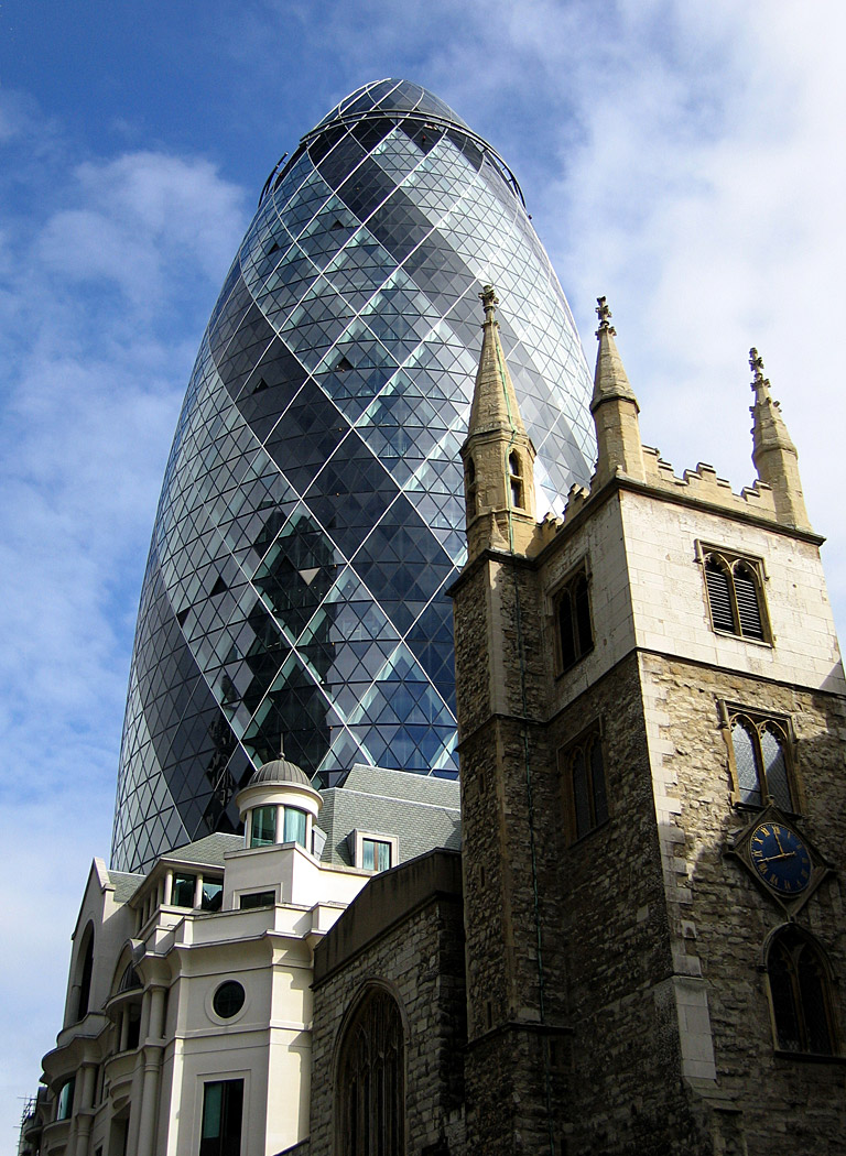 the towers of 30 St Mary Axe (centre) and St Andrew Undershaft in the City of London